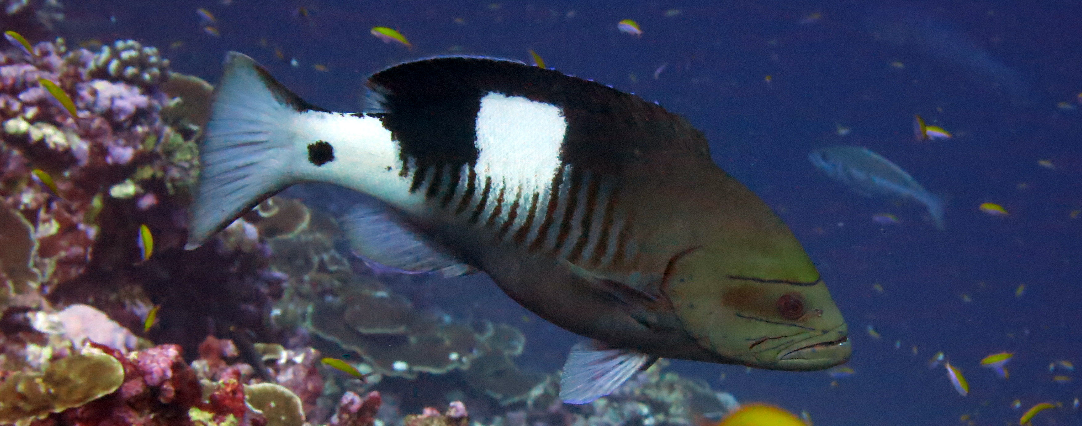 Masked grouper (Gracila albomarginata) Image ID: corl0196, NOAA's Coral Kingdom Collection Location: Pacific Remote Islands, Jarvis Island Photo Date: 2015 Photographer: Kevin Lino NOAA/NMFS/PIFSC/ESD